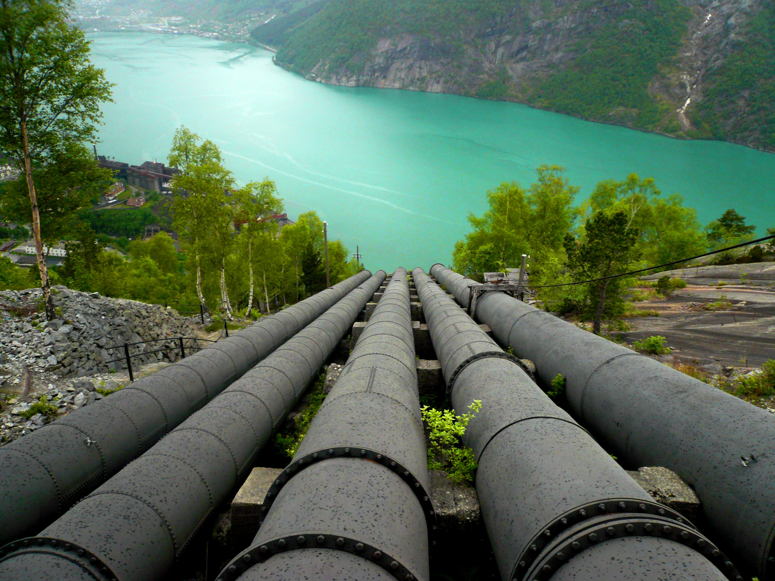 Tyssedal